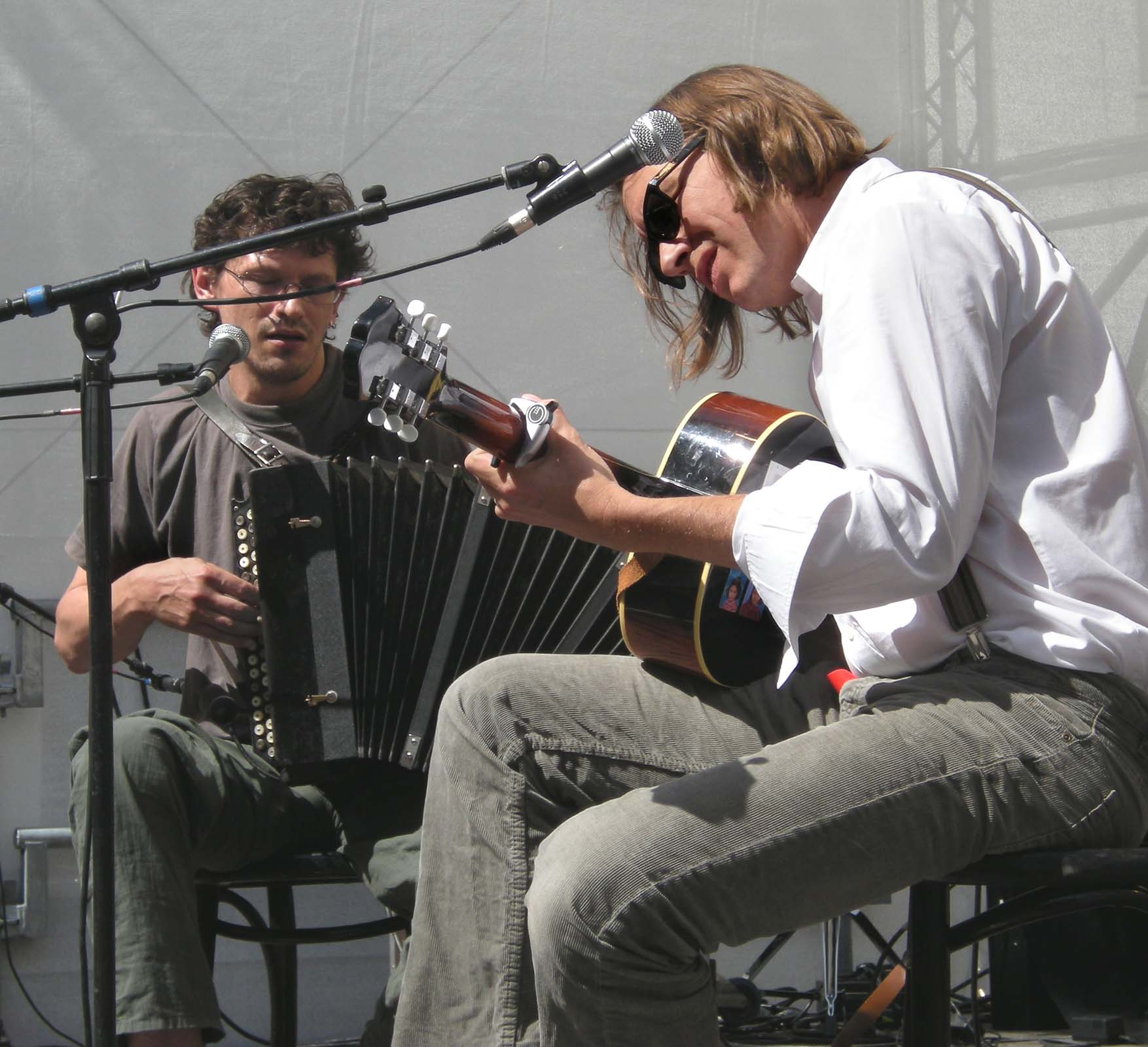 Austrian musicians Ernst Molden and Walther Soyka (accordion) performing at Vienna's annual Stadtfest Note: Camera time is set to UTC, which is local time -2.